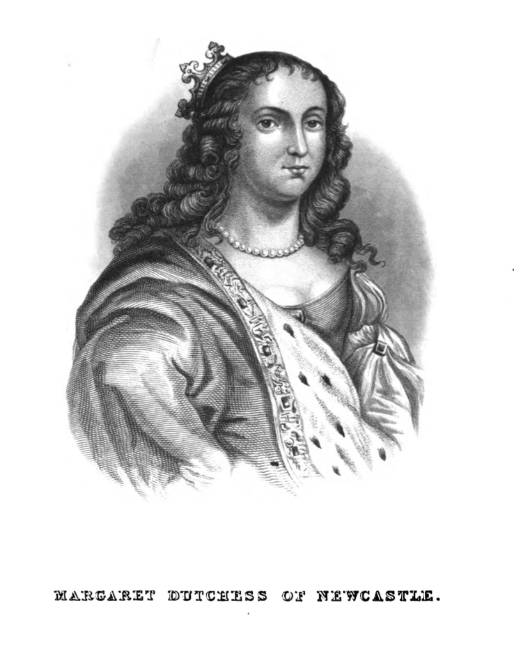 Margaret, Duchess of Newcastle